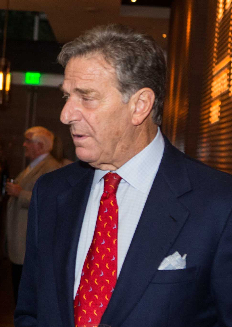 Paul Pelosi at Moet Hennessy Financial Times Club Dinner, September 12, 2012: San Francisco